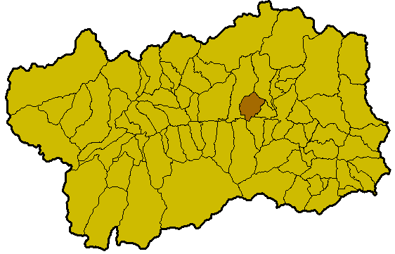 Location map of Verrayes in the Aosta Valley.